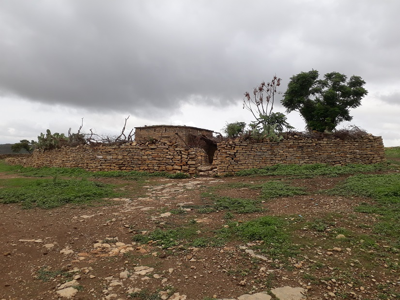 Antalo Limestone as building material - house in Addi Ateroman in Dogu'a Tembien